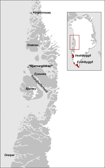 Map of the northern hunting grounds of the Norse in medieval Greenland called Nordurseta – Norðurseta (also spelled Nordseta or Nordursetur). The exact location is not known but it was probably approximately from modern Upernavik in the north to Sisimiut in the south. The red dots indicate the two known remains from the medieval Norse in the area, the rune stone from Kingittorsuaq and the ruin called “The Bear Trap” (in Danish "Bjørnefælden”) . The names are modern Icelandic spelling of probable geographic areas based on medieval written sources.